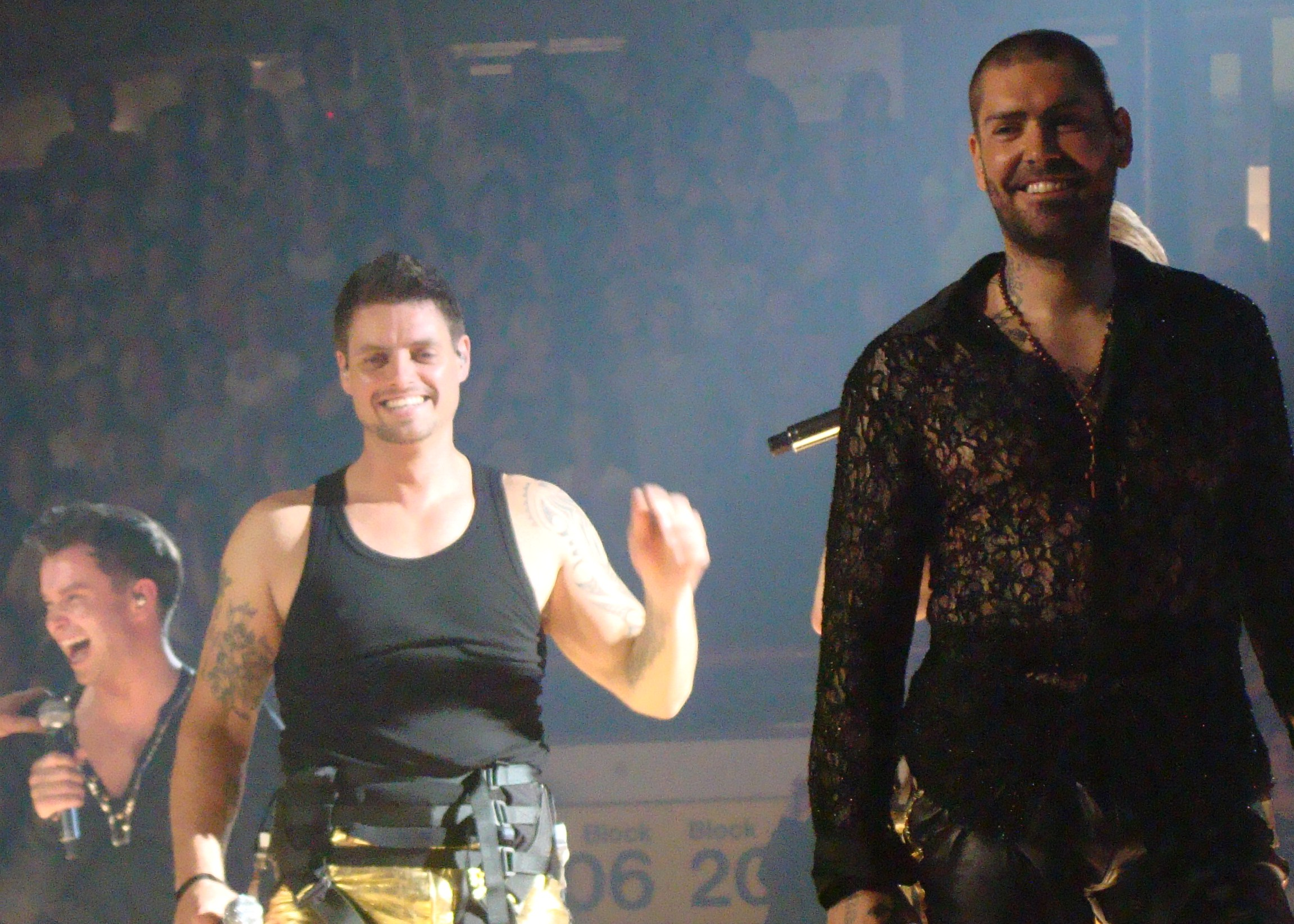 Shane Lynch, Keith Duffy and Stephen Gately